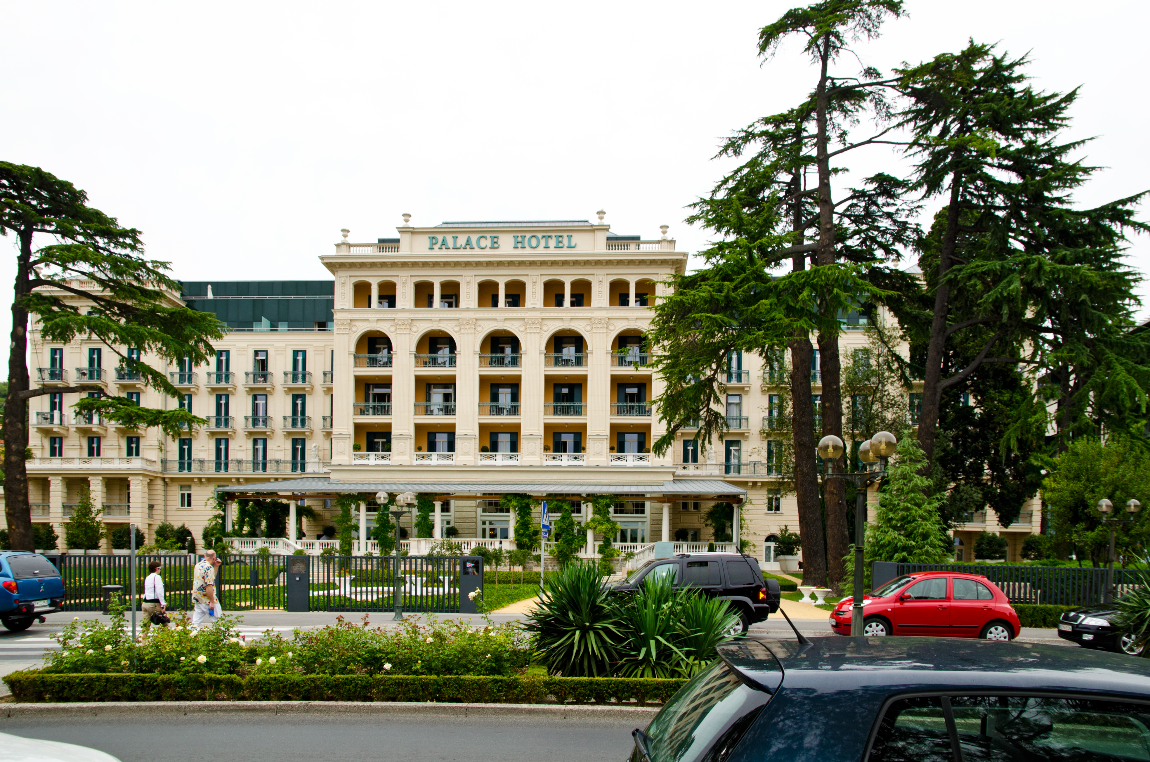 Portorož (Slovenia), Kempinski Palalace Hotel